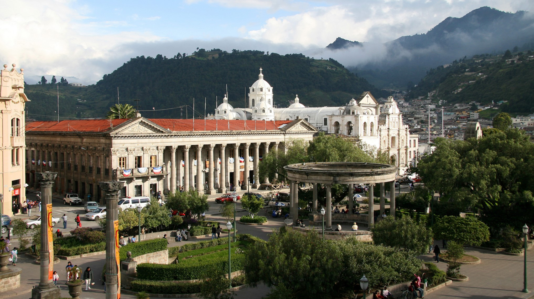 Quetzaltenango, Guatemala.